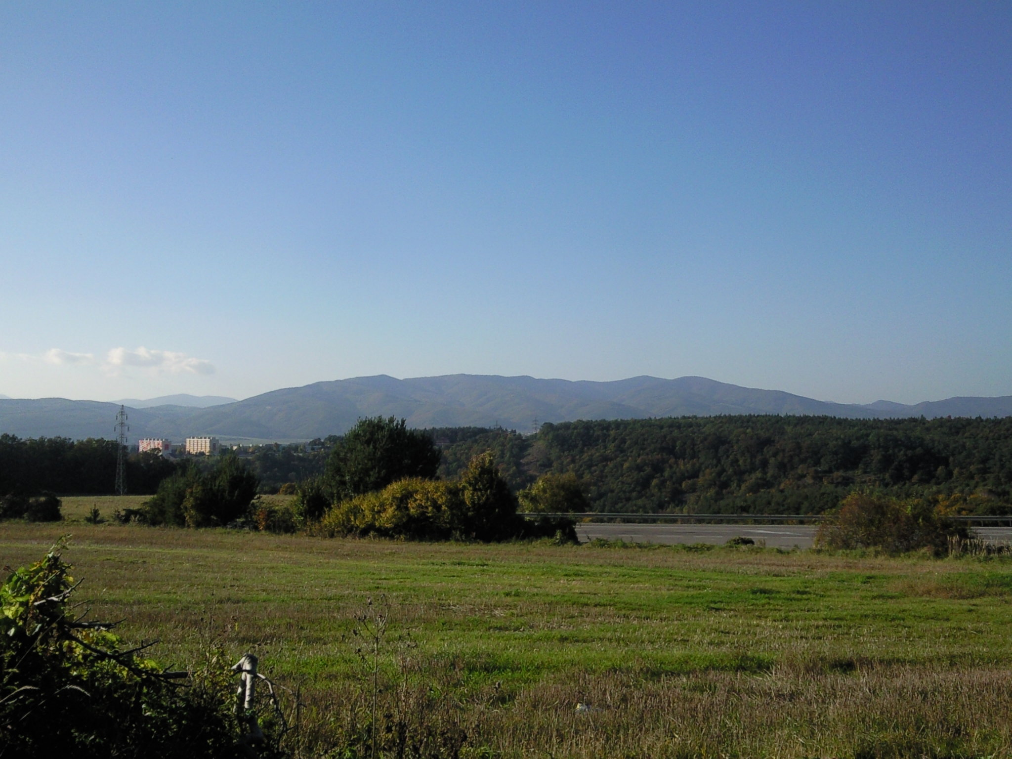 Mala Magura Mountain